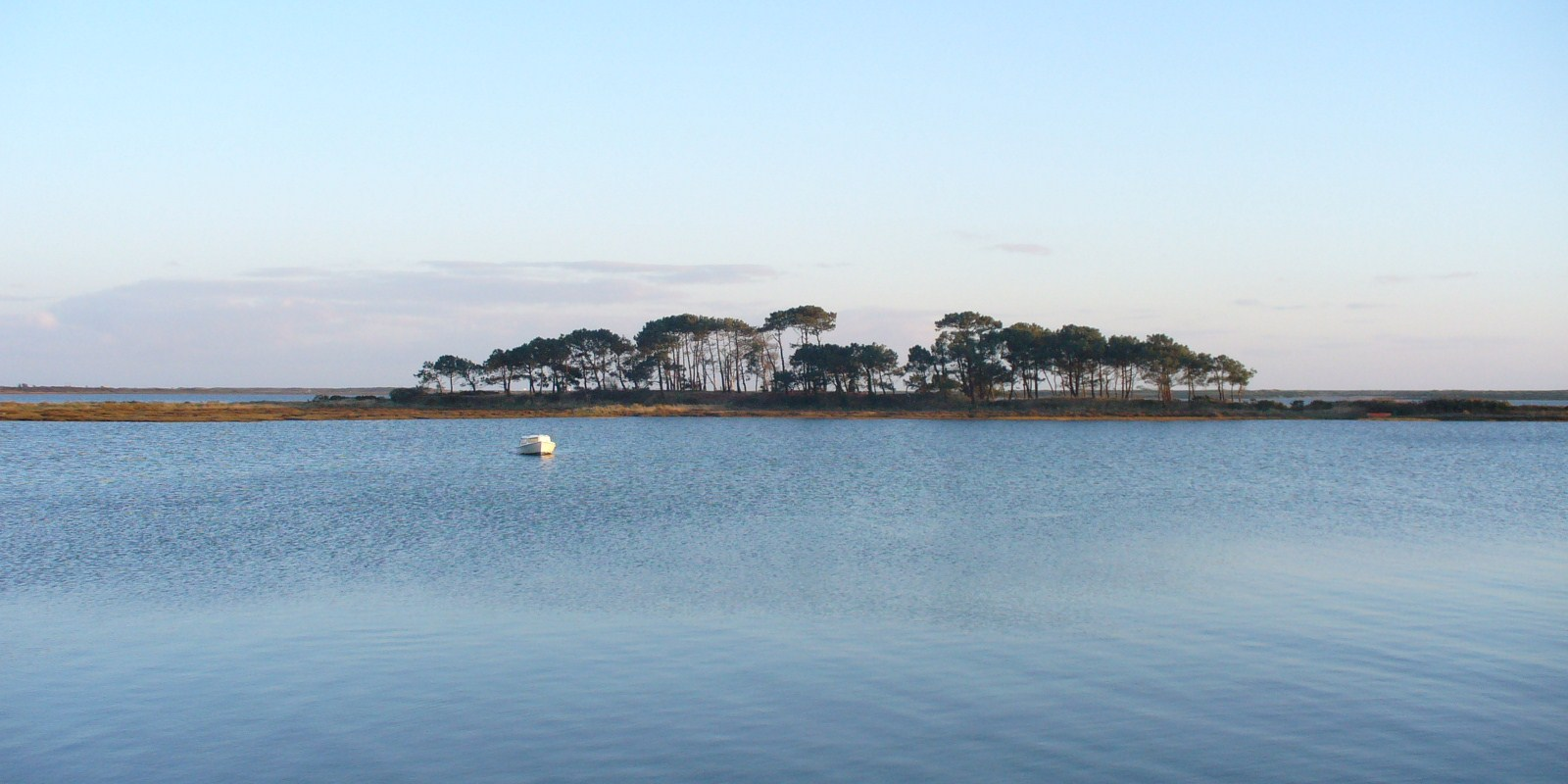 Riantec, l'île aux Pins